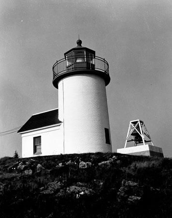 Curtis Island Lighthouse, Maine, USA c1975